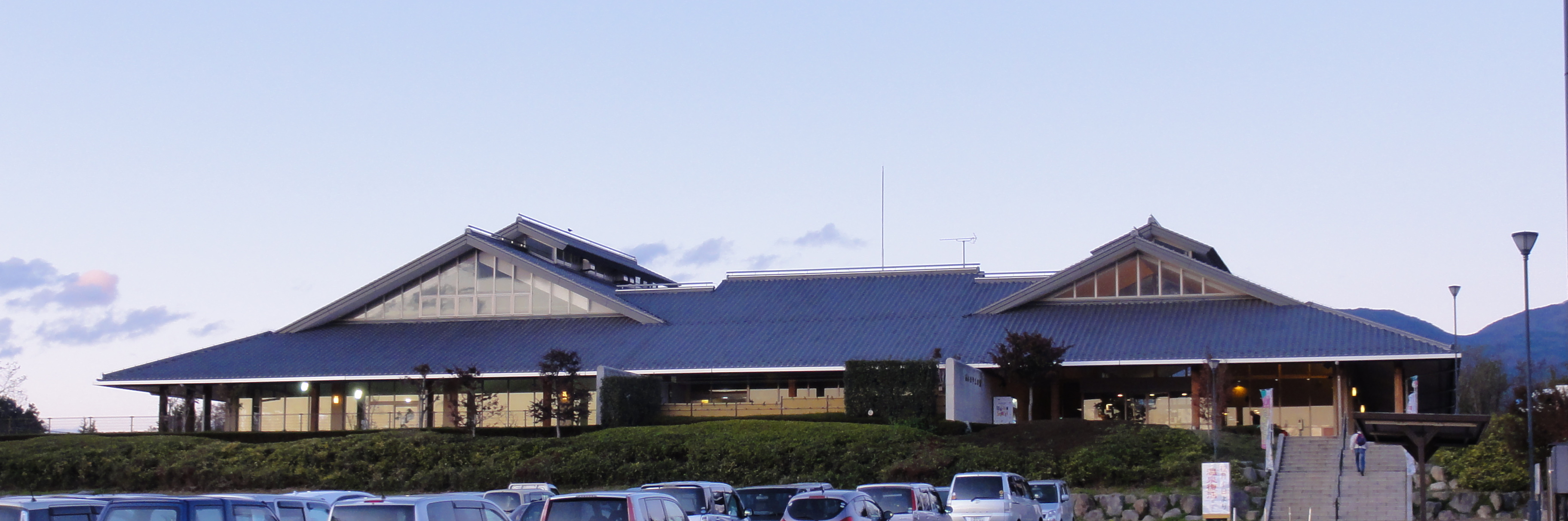 Road to station AkaginoMegumi,Gunma prefecture,Japan